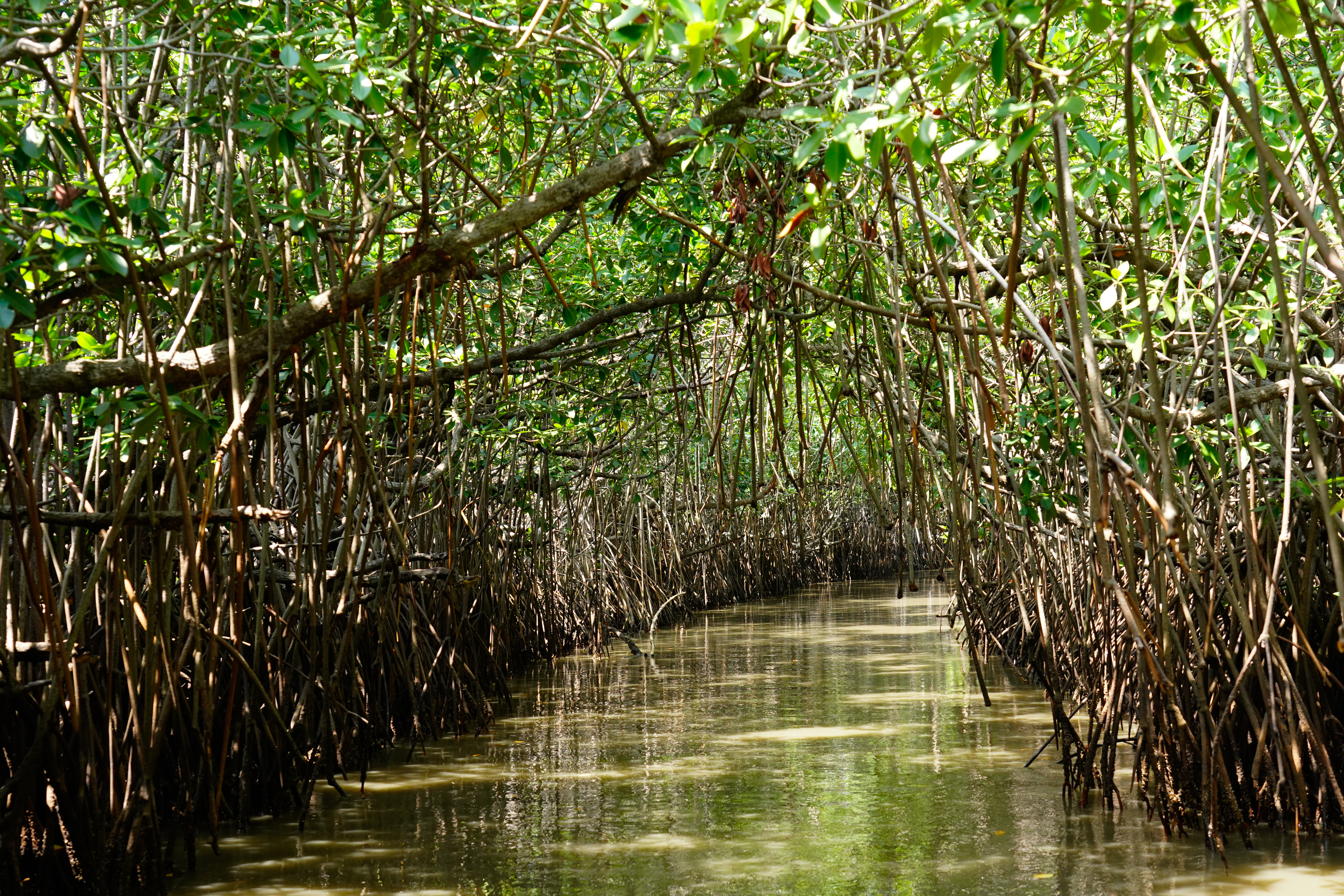 Inside Pichavaram Mangrove Forest